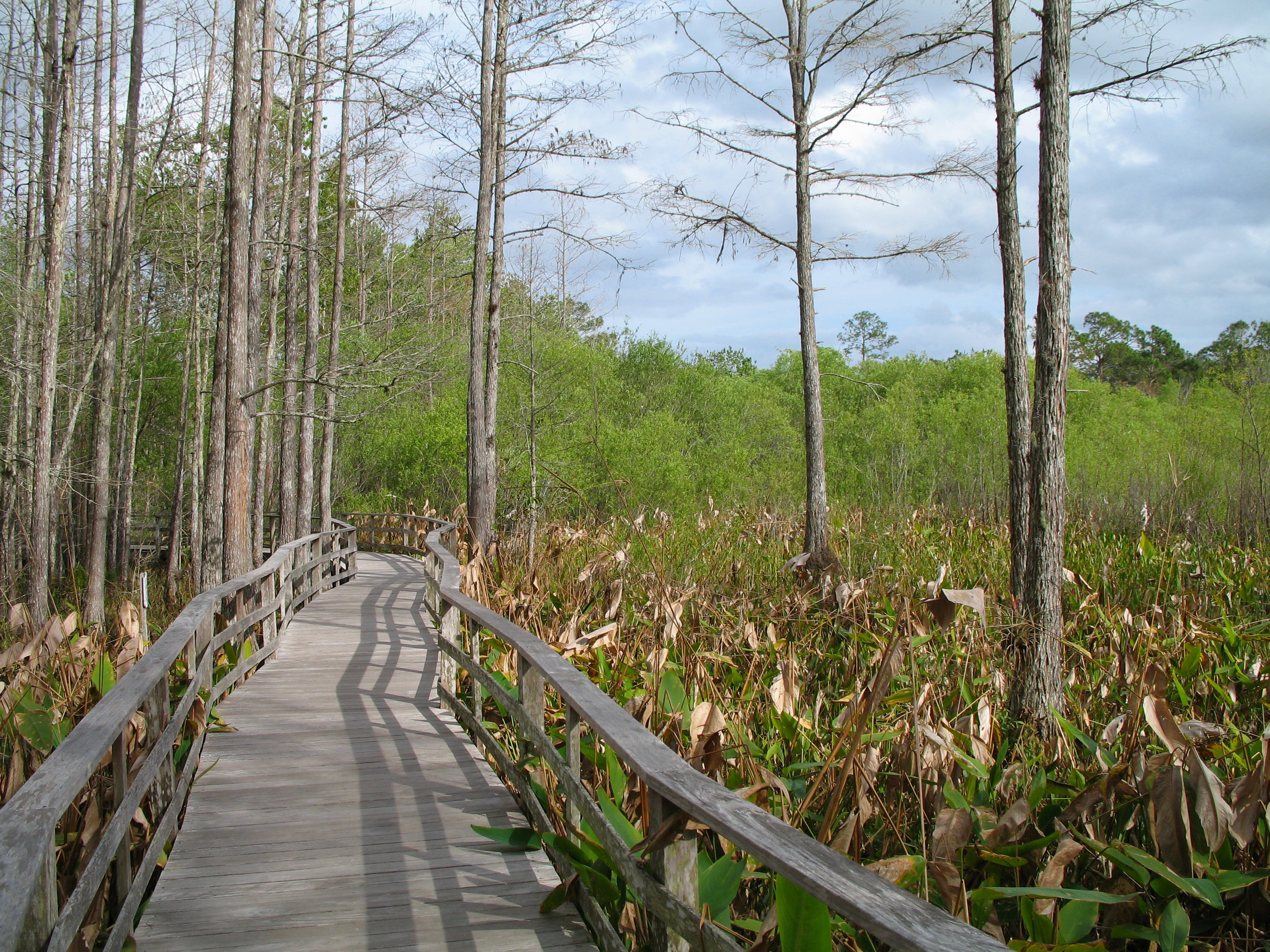 Everglades, Florida, U.S.A.: Corkscrew Swamp Sanctuary, operated by the National Audubon Society